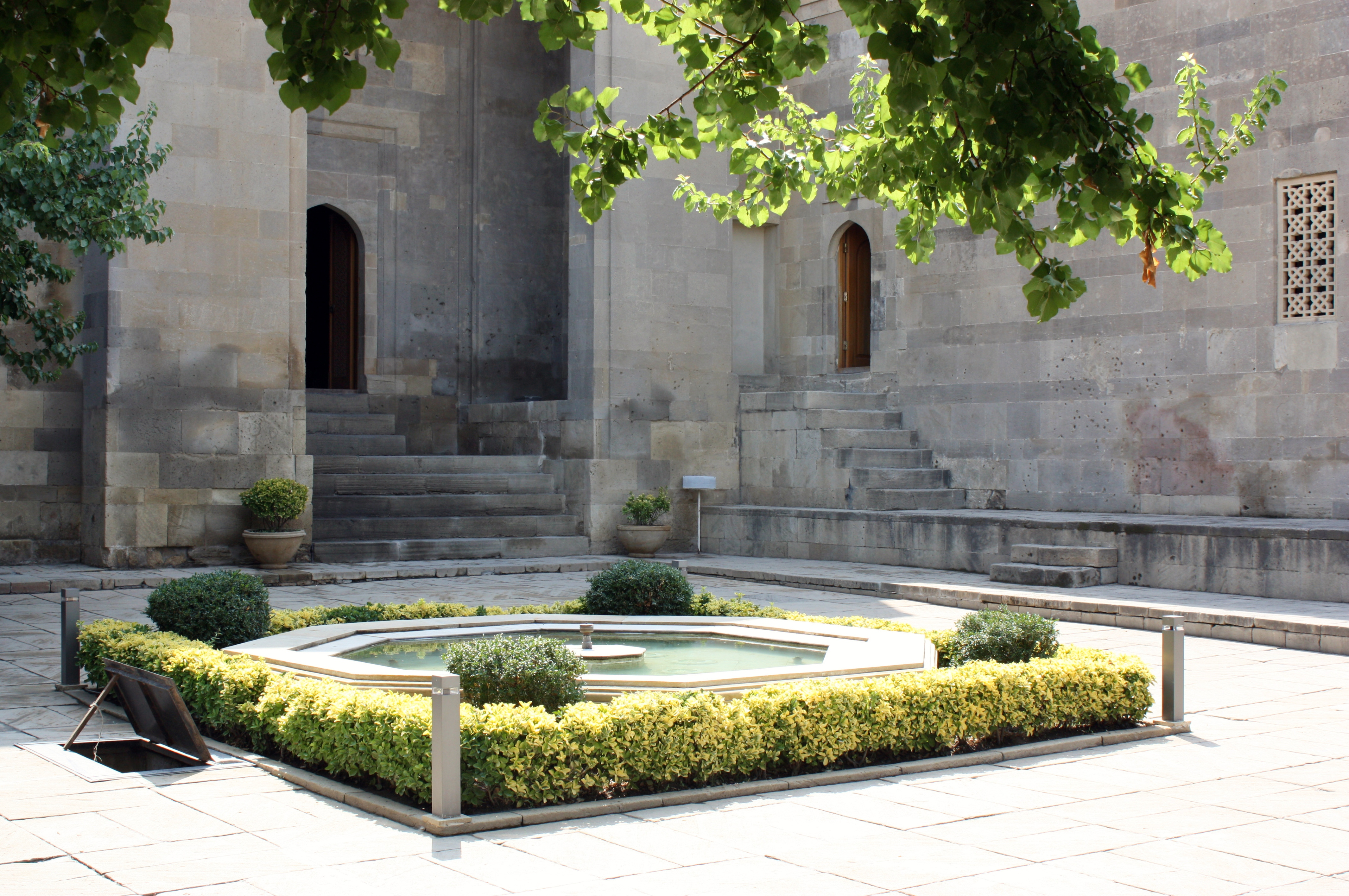 Palace of the Shirvanshahs, Baku, Azerbaijan